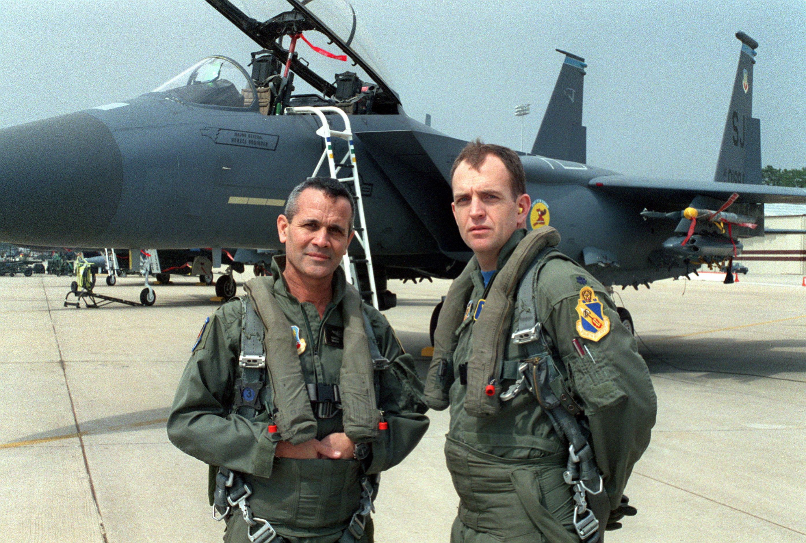 Maj. Gen. Herzel Bodinger, ISRAELI Air Force Commander, and Lt. Col. Ralph Jodice, 335th Fighter Squadron Commander, pose in front of an F-15E. The 4th Wing played host to officers from the Iraeli Air Force. Maj. Gen. Herzel Bodinger, Commander of the Israeli Air Force and Brig. Gen. Benjamin Zin, were invited by Gen. Loh, Air Combat Command Commander. During the ISRAELI officers' eight hour visit they were briefed on the F-15E capabilities. Location: SEYMOUR JOHNSON AIR FORCE BASE, NORTH CAROLINA (NC) UNITED STATES OF AMERICA (USA)